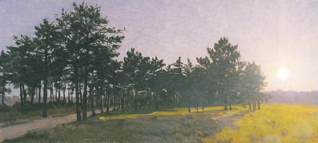 Danish: Solnedgang ved Fontainebleau